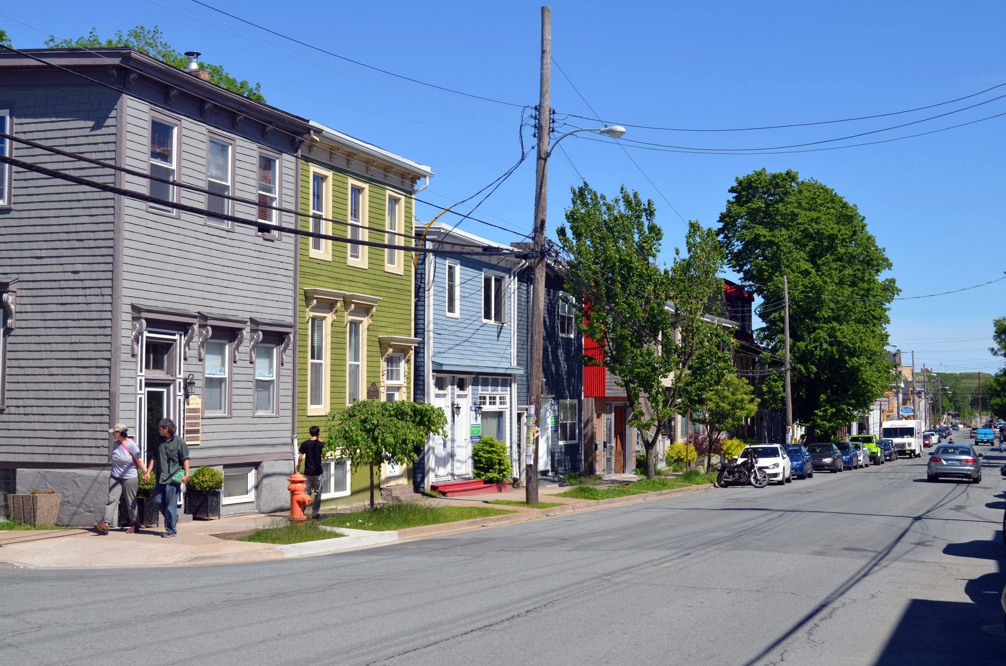 Agricola Street, Halifax, Nova Scotia in June 2015.